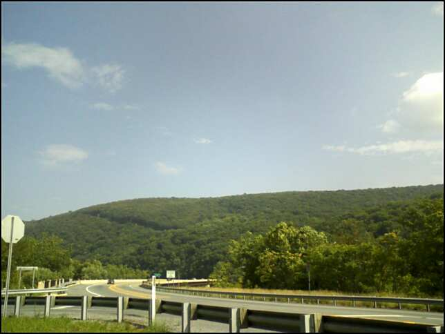 Loudoun Heights from US-340 in West Virginia near Harpers Ferry National Park